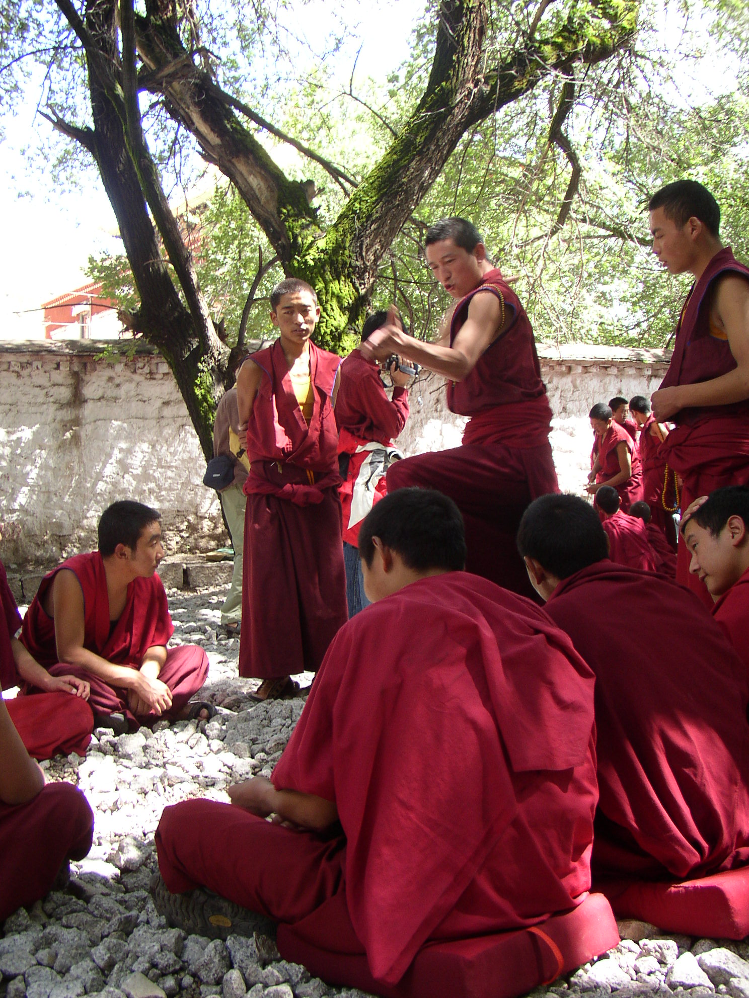 Debating monks in monastery Sera